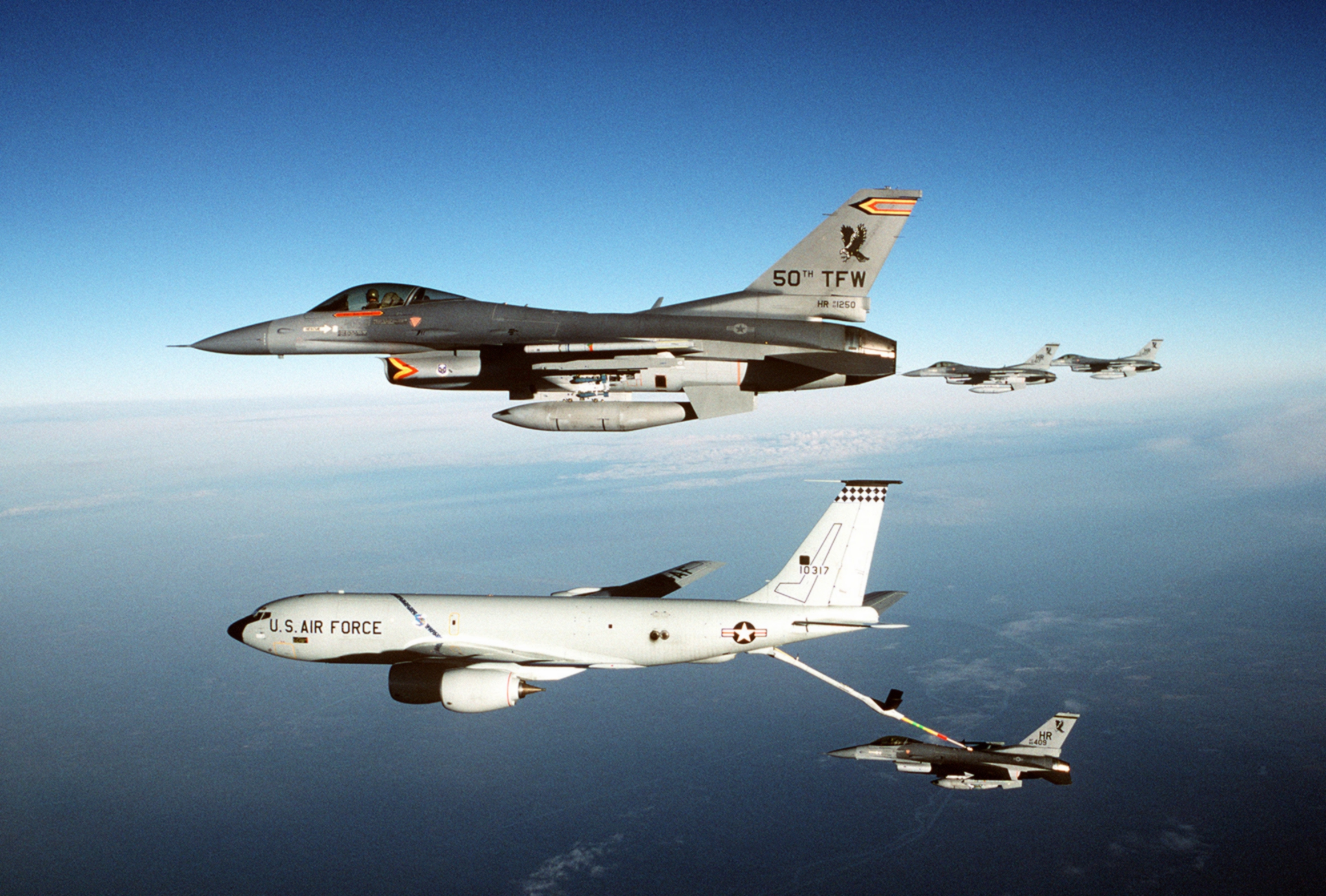 U.S. Air Force General Dynamics F-16C Fighting Falcon aircraft from the 10th Tactical Fighter Squadron, 50th Tactical Fighter Wing, based at Hahn Air Base, Germany, refuel from a Boeing KC-135R Stratotanker en route to Spain to take part in exercise "Sabre Thunder".